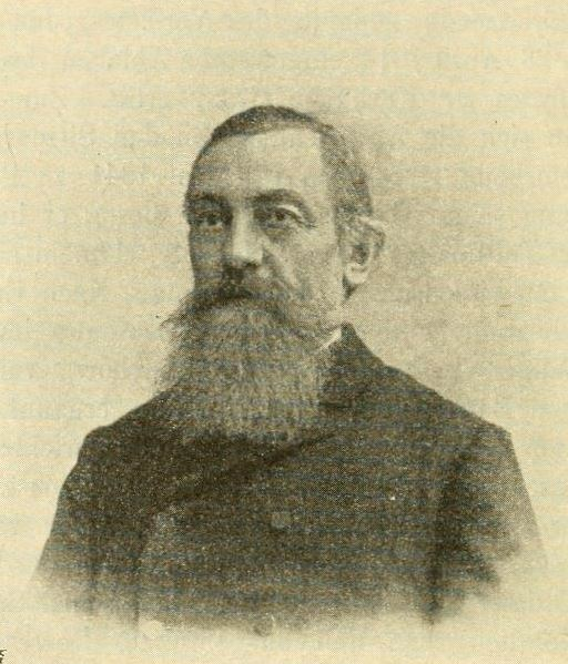 Karl Skalitzky (1841-1914)